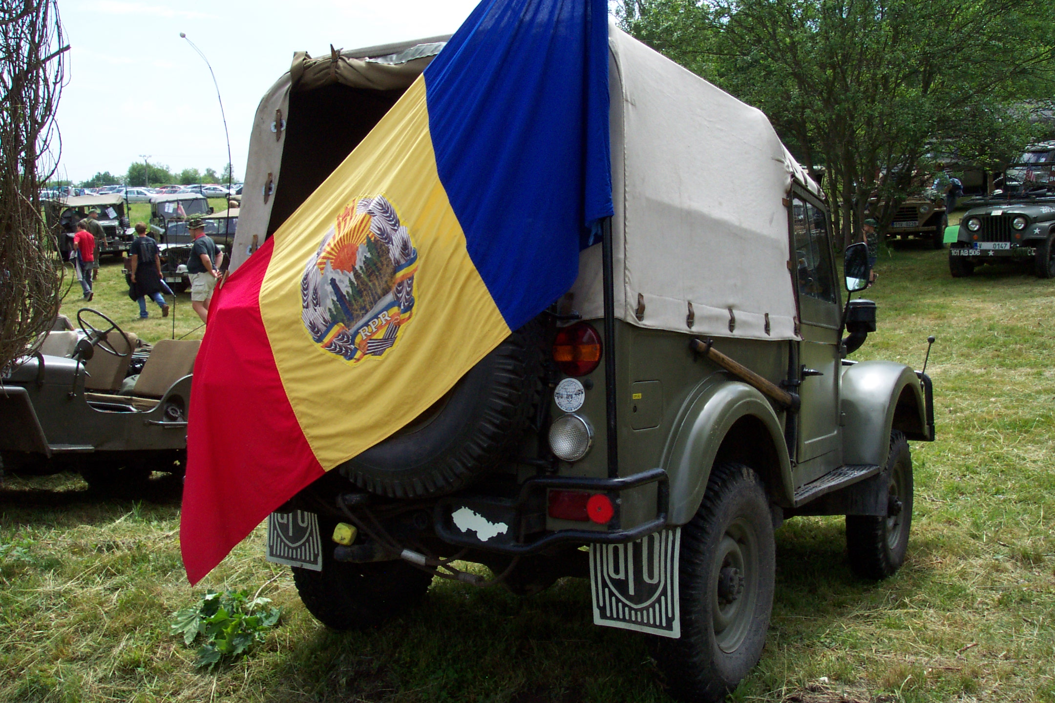 ARO military vehicle of Romanian origin with the flag of socialist Romania